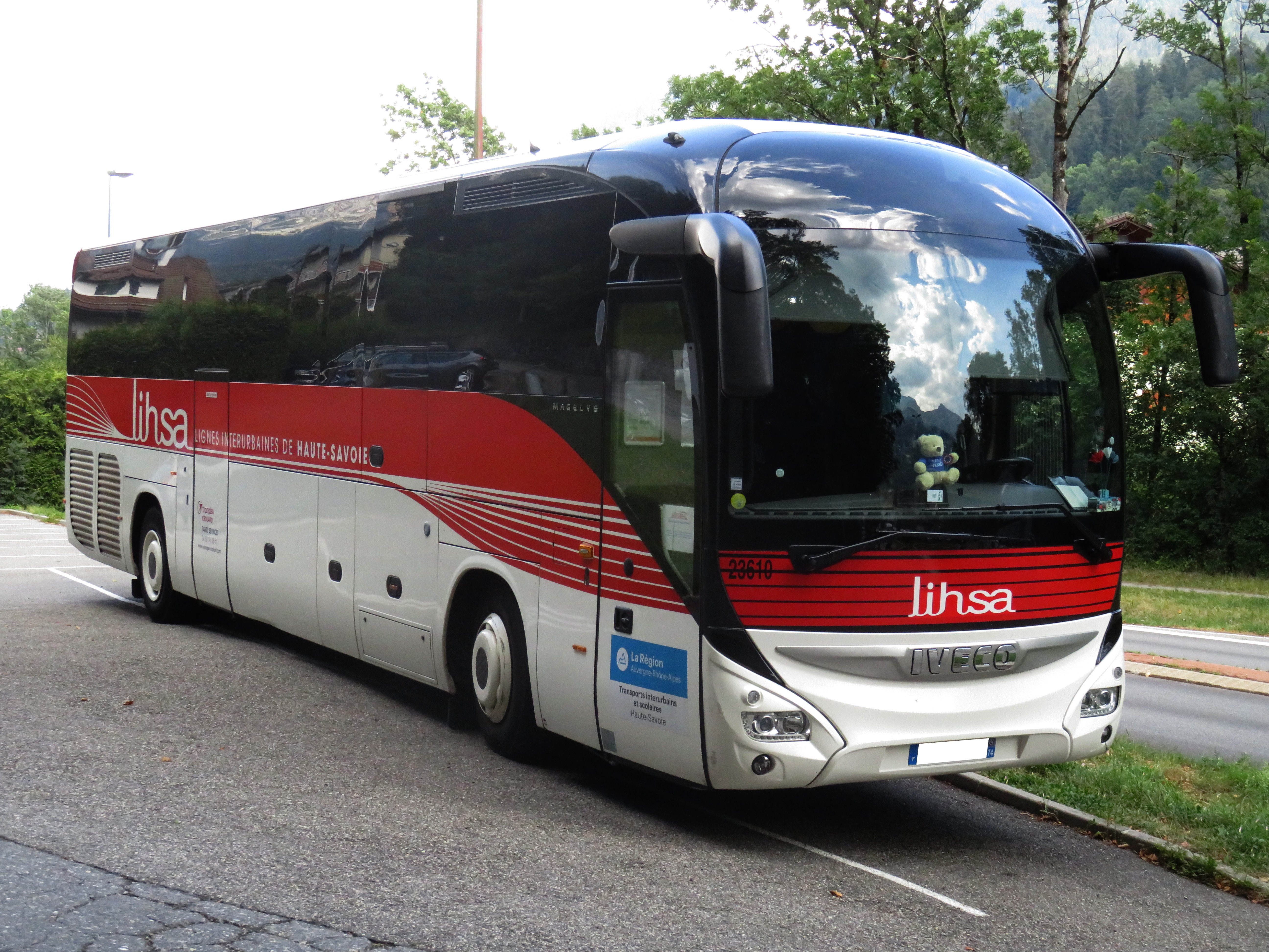 An Iveco Magelys (n°23610 of Transdev Haute-Savoie) parked in the Rue Marguerite Frichelet (Thônes, France) on August 8, 2018.